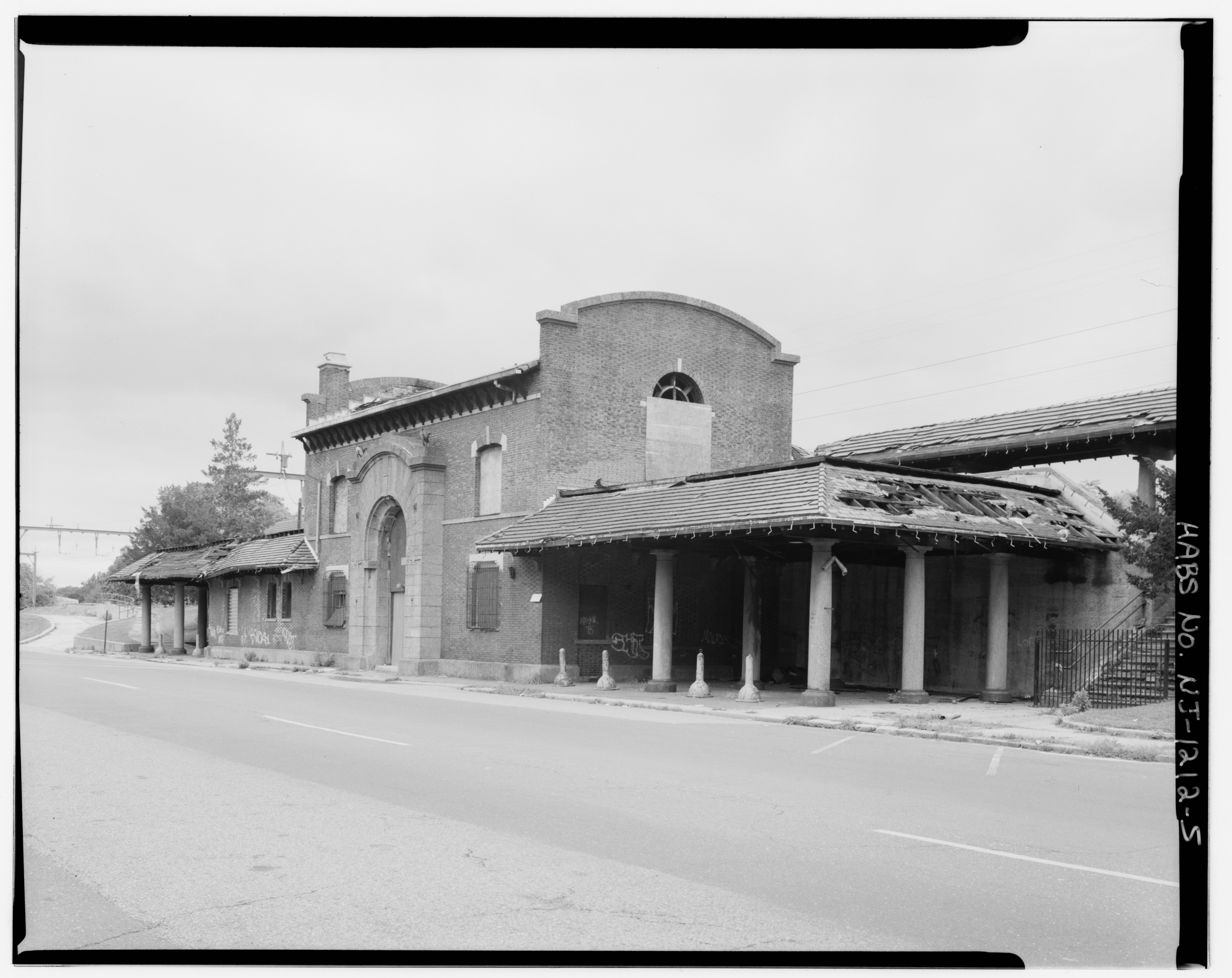 A view of the deteriorating Ampere New Jersey Transit station in East Orange, New Jersey. The building was demolished in 1995.